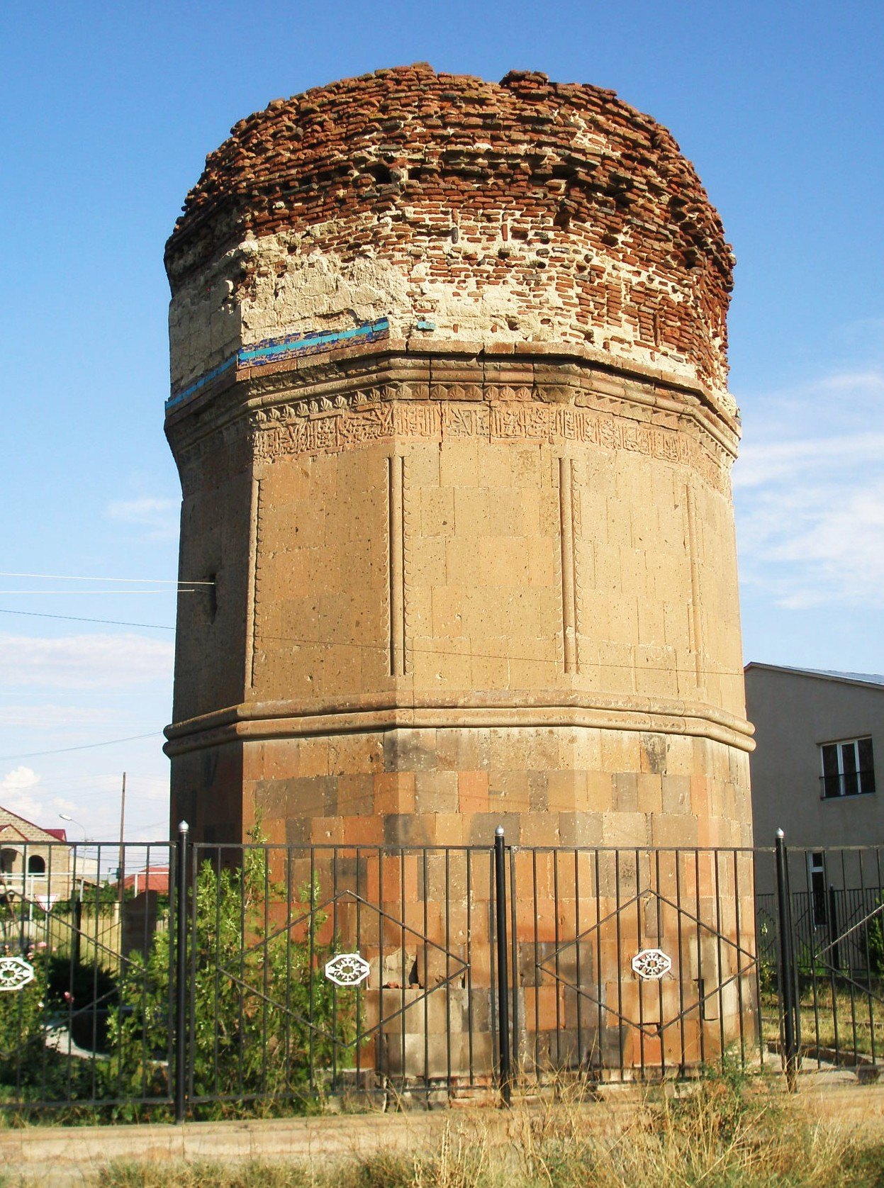 Funerary tower of Argavand 18/1